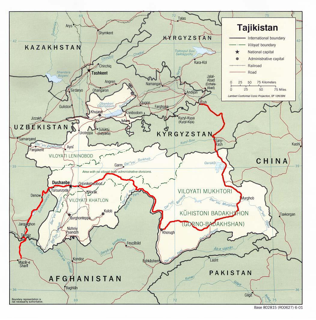 Map showing the route of the Pamir Highway through Afghanistan, Uzbekistan, Tajikistan, and Kyrgyzstan.